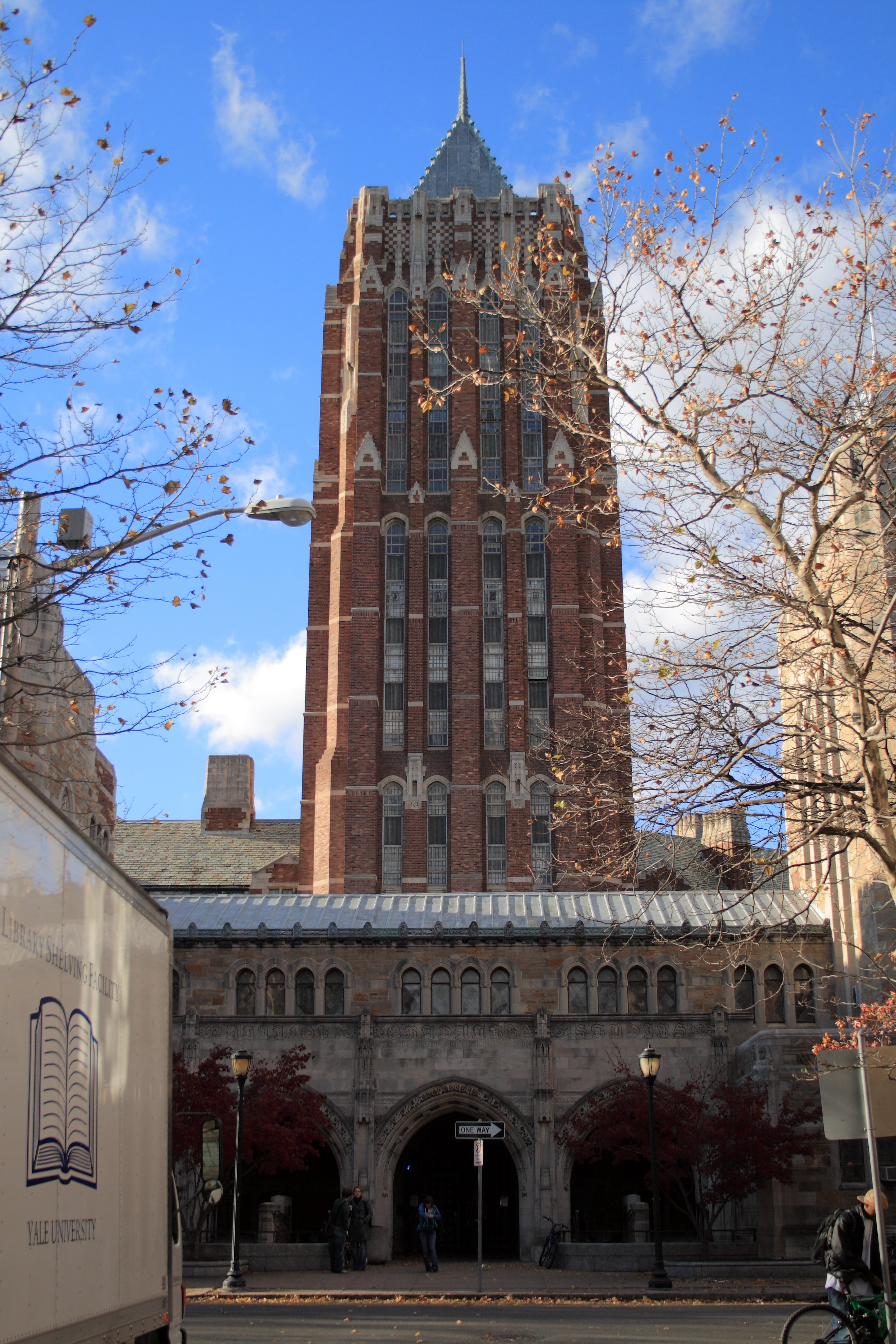 The Hall of Graduate Studies at Yale University, photographed from Wall Street. The side of a Yale Library delivery truck is on the left.